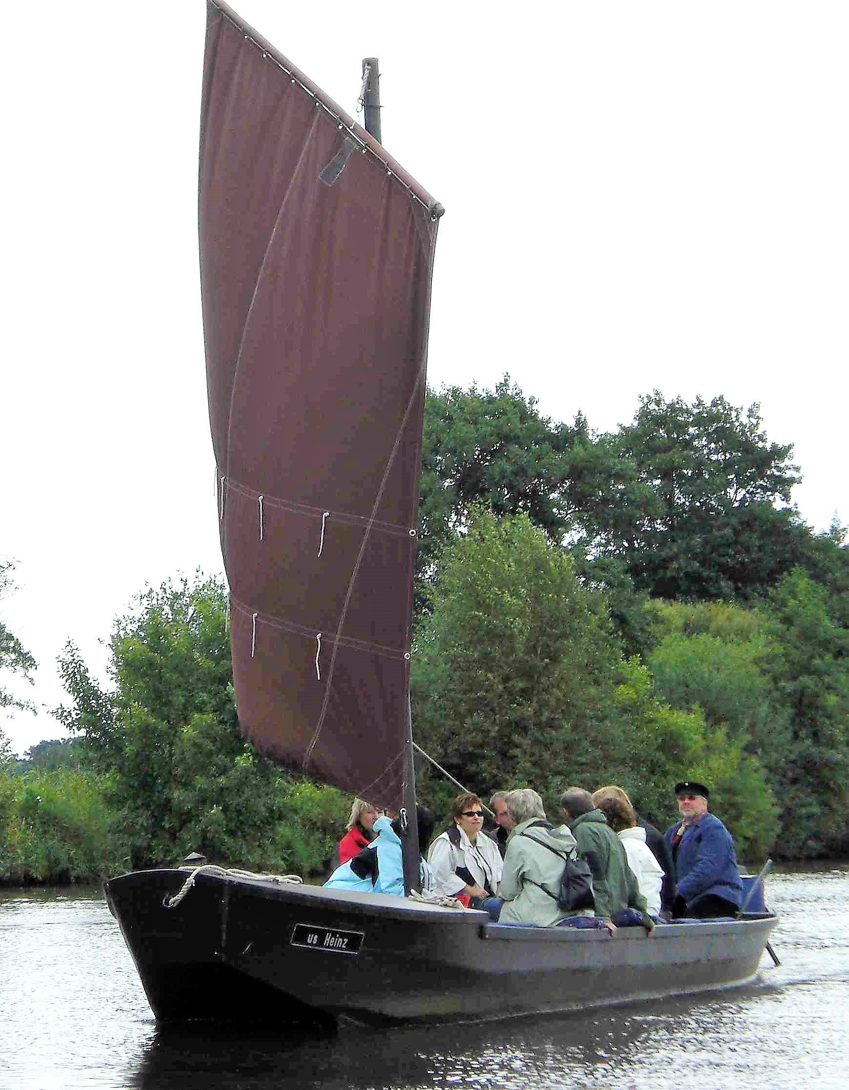 Peat barge on the Hamme River.